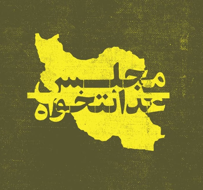 Logo for Campaign for Justice-seeking Parliament